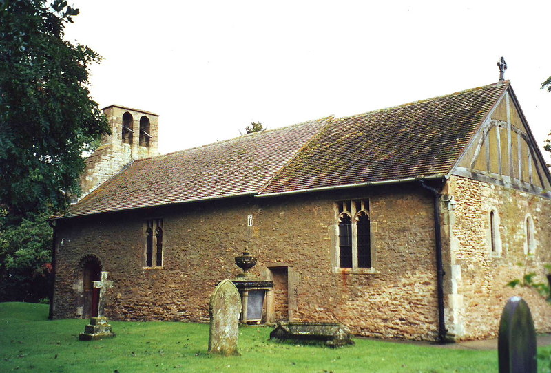 St. Edith's, Coates, Lincs.